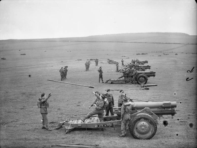 The British Army in the United Kingdom 1939-45 6-inch howitzers of 79th (The Scottish Horse) Medium Regiment, Royal Artillery, in action during a practise shoot near Huntly in Banffshire, 28 May 1941. It was a standard ritual for the ramrod to be hurled back to the gun 'Number One', to get it out of the way during firing.